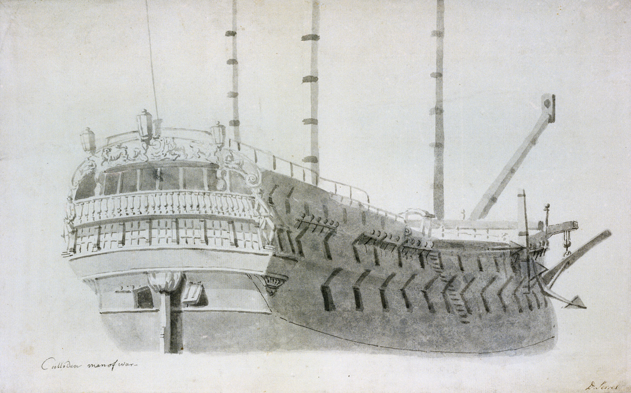 Culloden man of war; drawing with graphite; pen & ink & wash, grey. As the annotation to original explains, the details of the stern balcony suggest the Culloden of 1783 is portrayed.